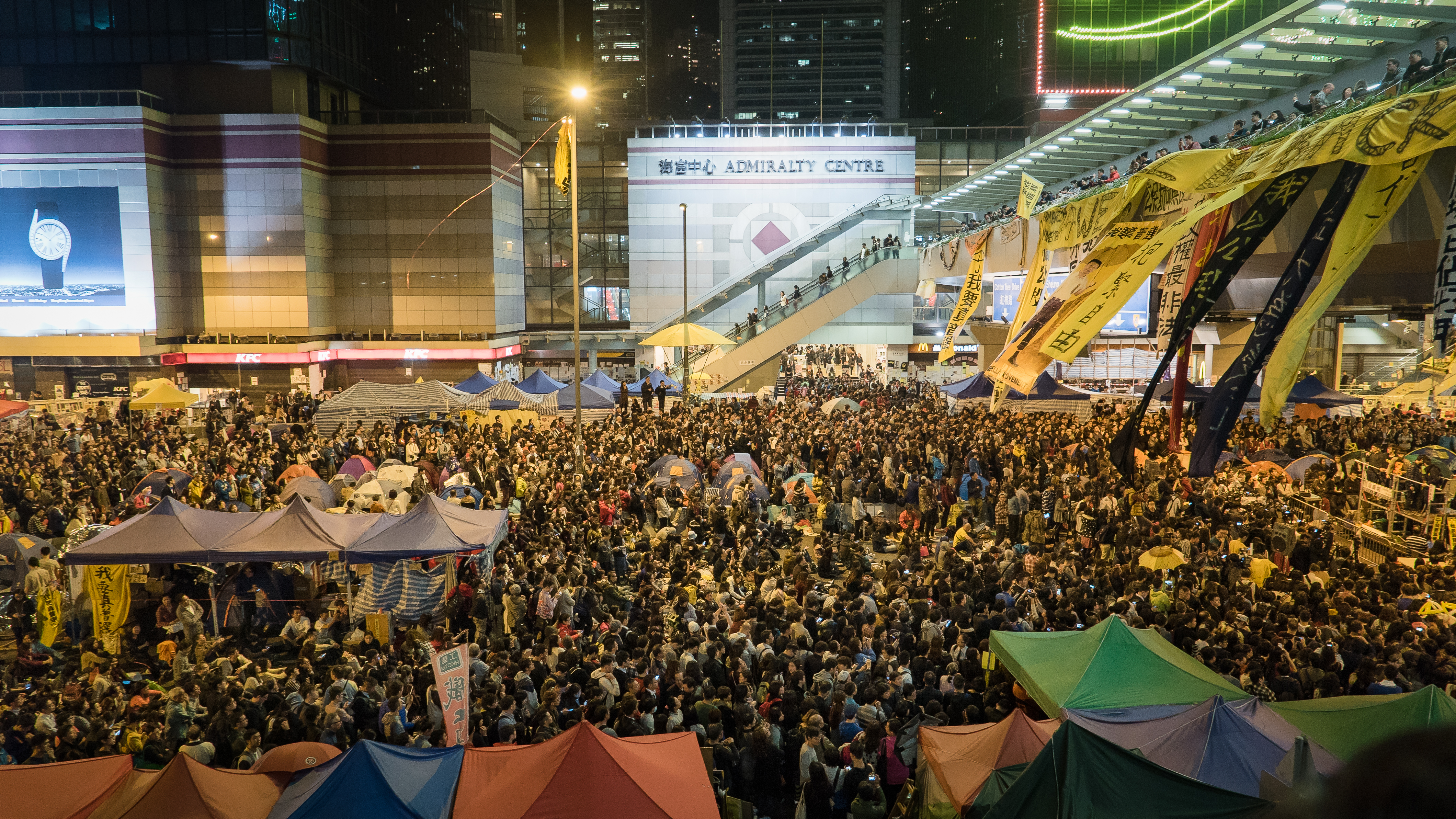 Umbrella Revolution Last Night in Admiralty